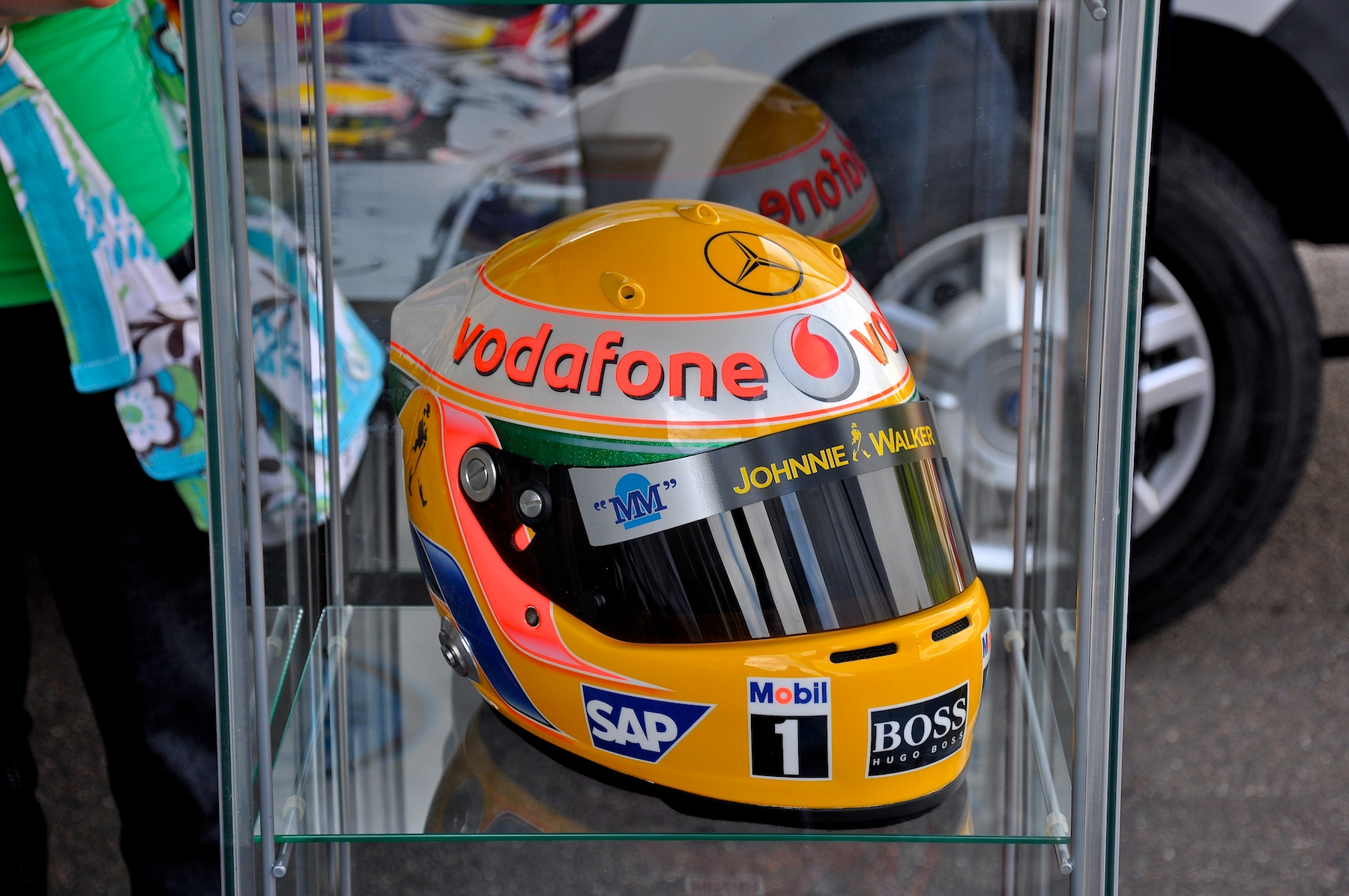 Lewis Hamilton's Race Helmet